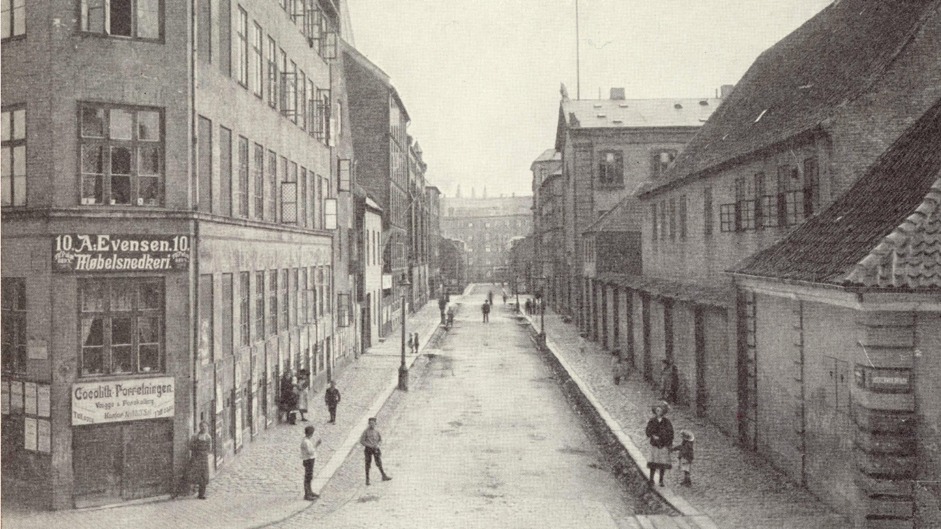 Stokhusgade seen from from Øster Voldgade in Copenhagen, Denmark